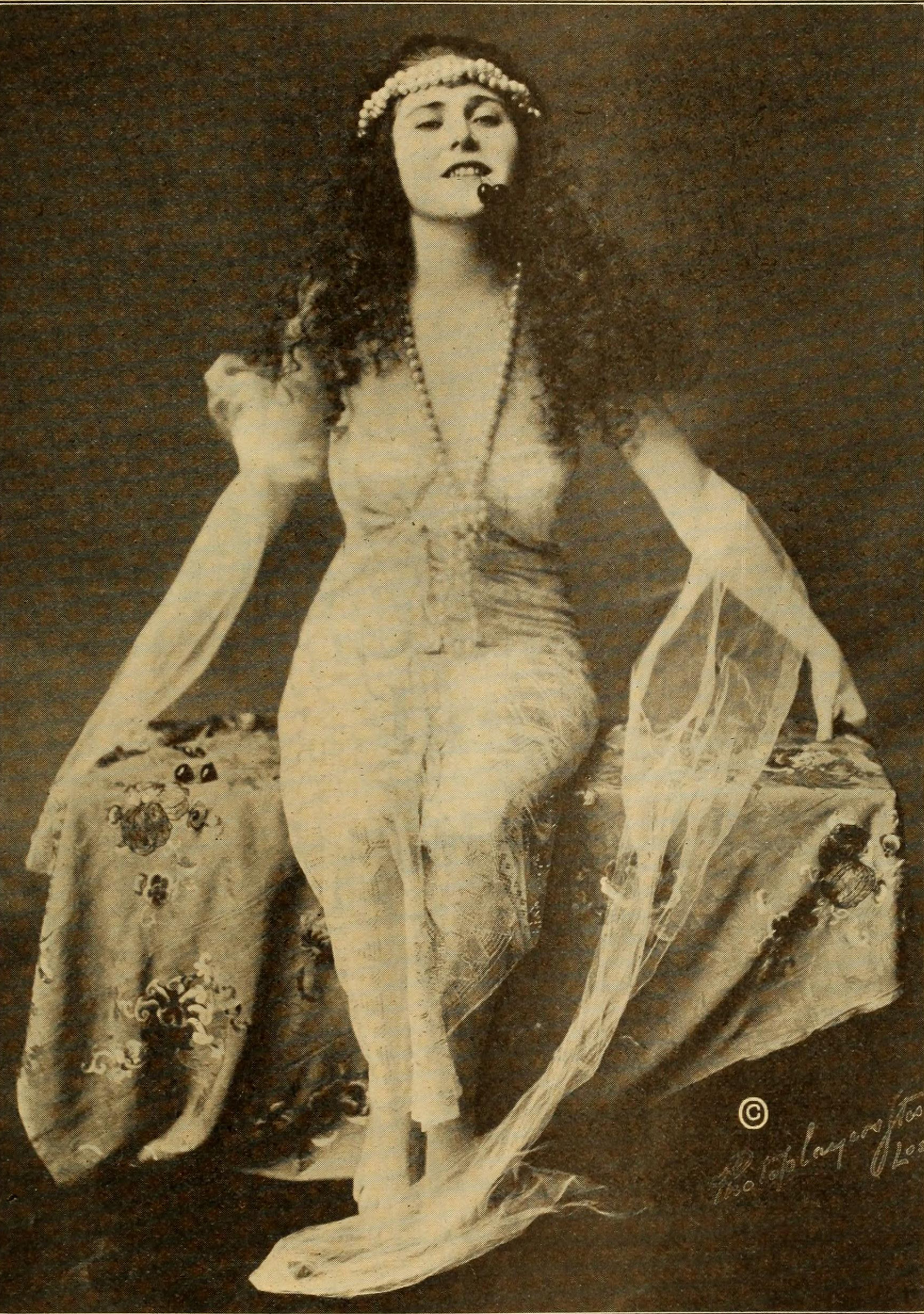 Advertisement in The Moving Picture World